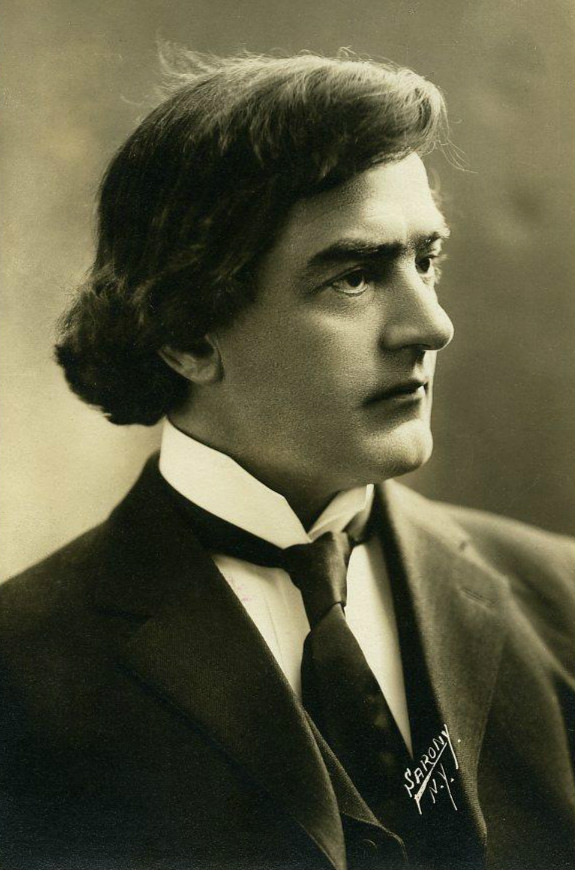 Photo of Tyrone Power, Sr., the father of the actor Tyrone Power and also an actor.